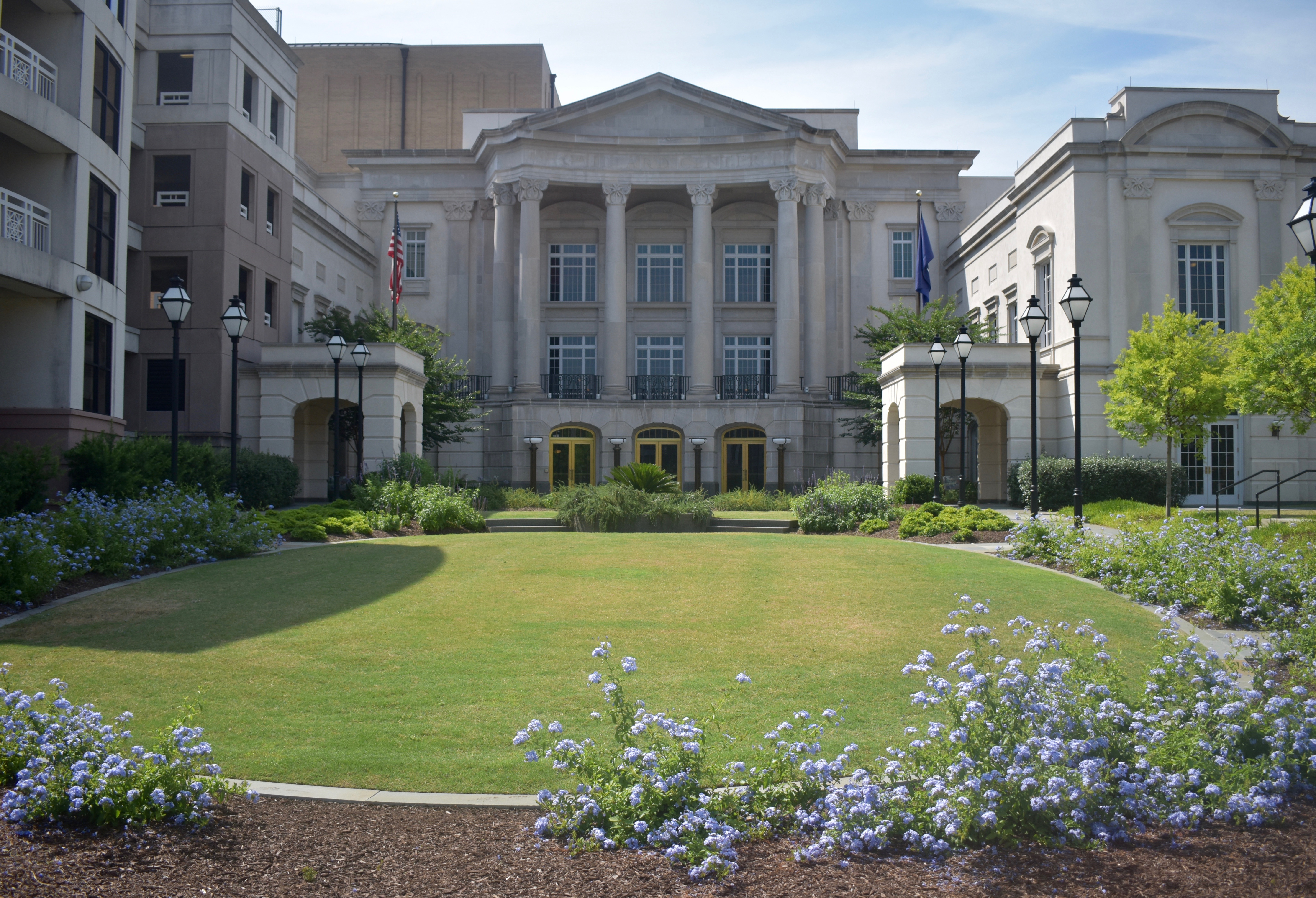 Taken in May in Charleston, SC. This photo is of the Charleston Gaillard Center's front entrance.